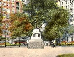 Washington Gray Monument, Washington Square Philadelphia By John Wilson